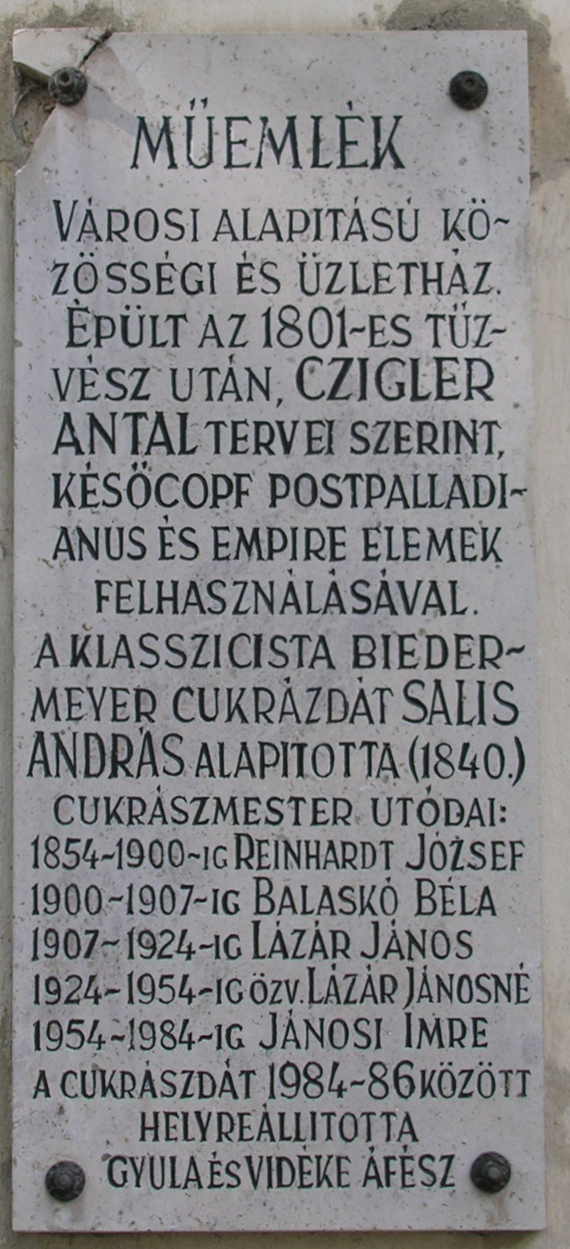 Plaque to Százéves Cukrászda in Gyula (Erkel square 1.)